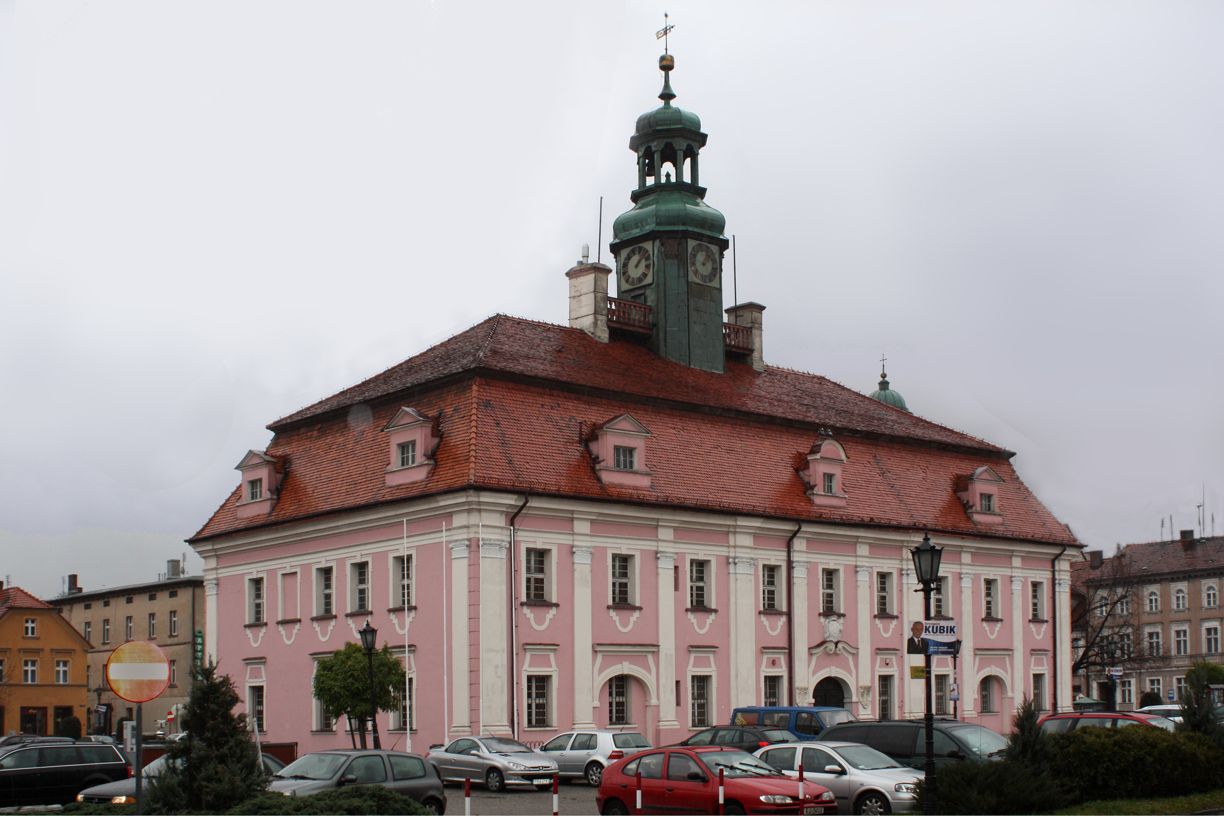 Town hall of Rawicz (Poland)